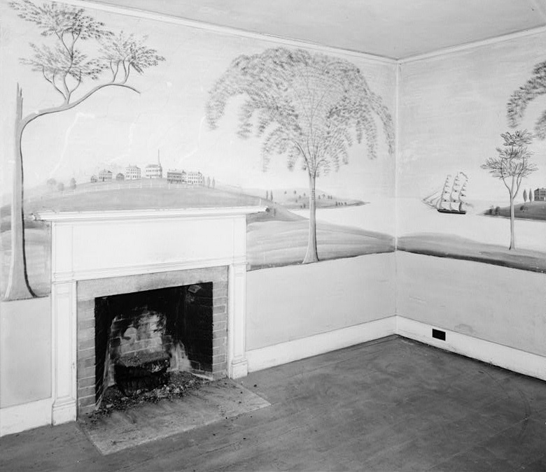 Mural by Rufus Porter, in the Moses Kent House, Lyme, New Hampshire. Cropped from the original HABS photo.